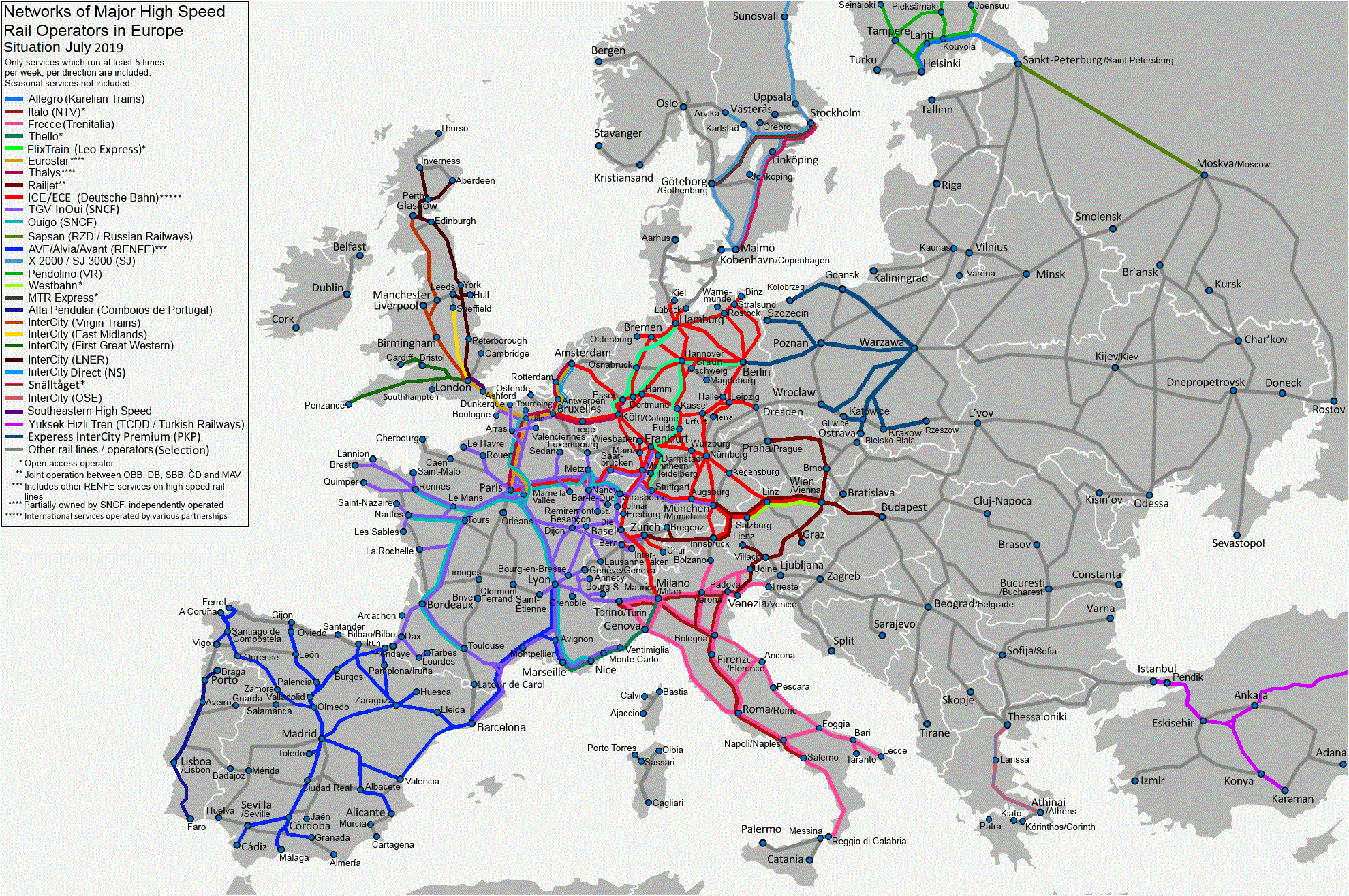 Networks of Major High Speed Rail Operators in Europe. Most intermediate stops have been omitted. For detailed criteria about what counts as a "high speed rail operator", see discussion page. For details about operating speeds, Situation April 2018.